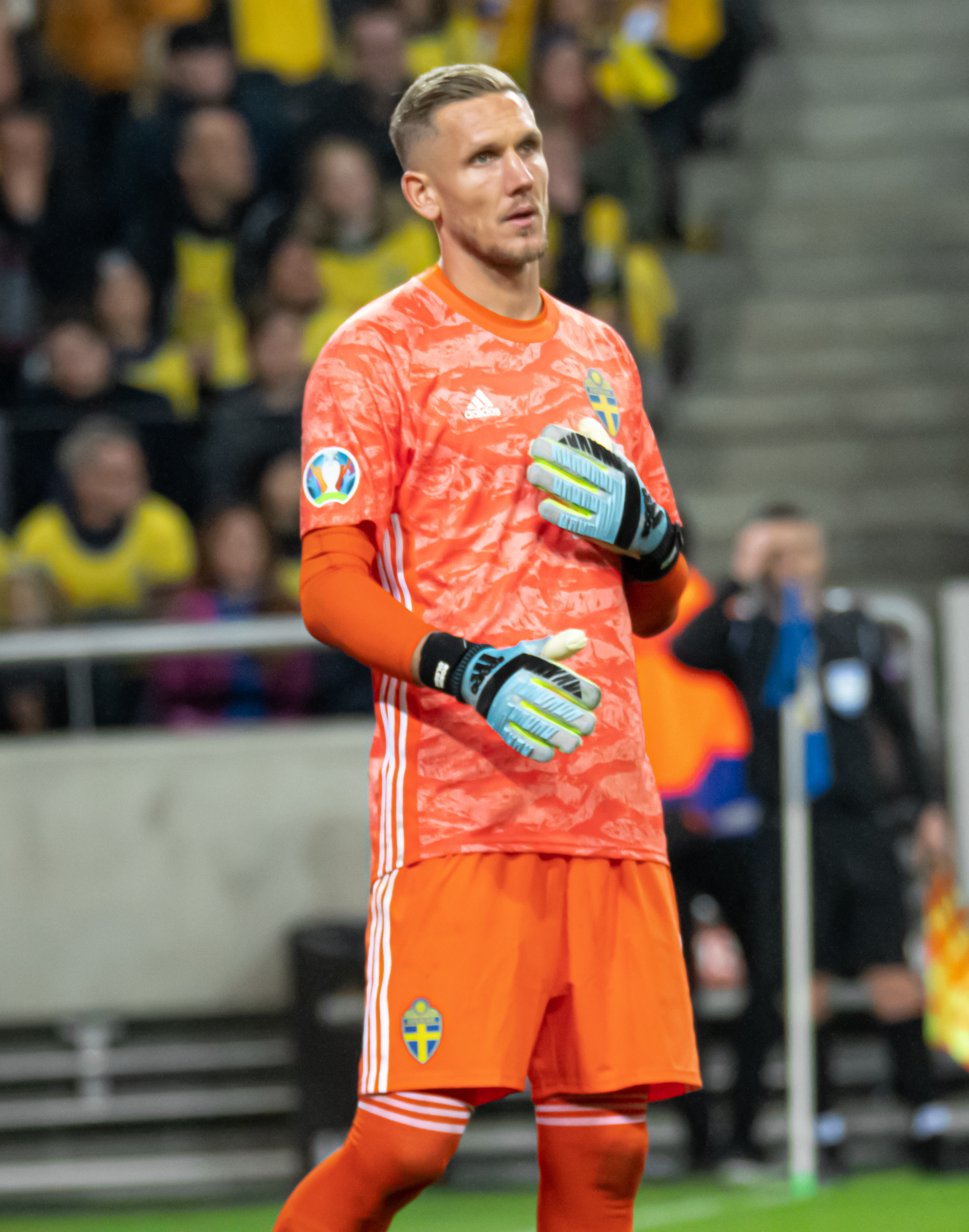 UEFA_EURO_qualifiers_Sweden_vs_Spain_20191015